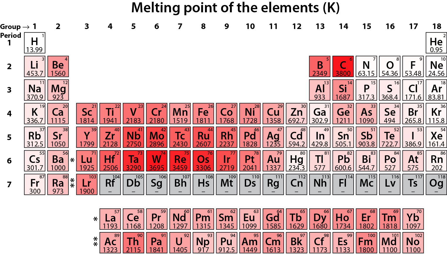 Melting points of the elements (kelvin) Data from